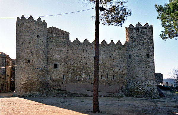 Calonge castle, Baix Empordà